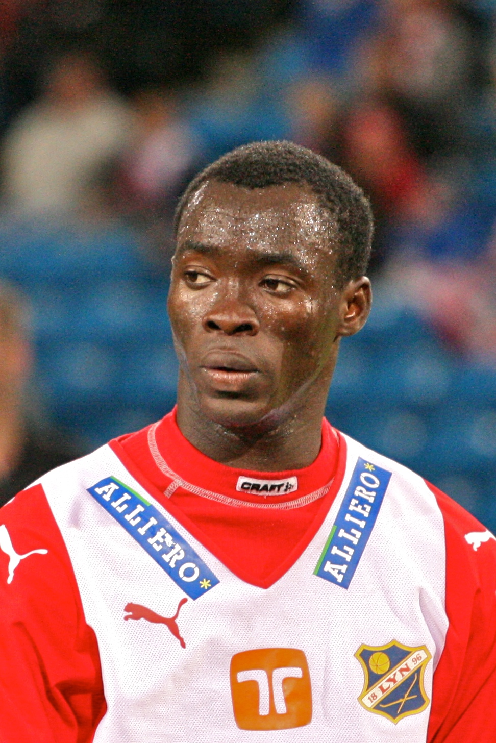 Davy Claude Angan, FC Lyn Oslo footballer.